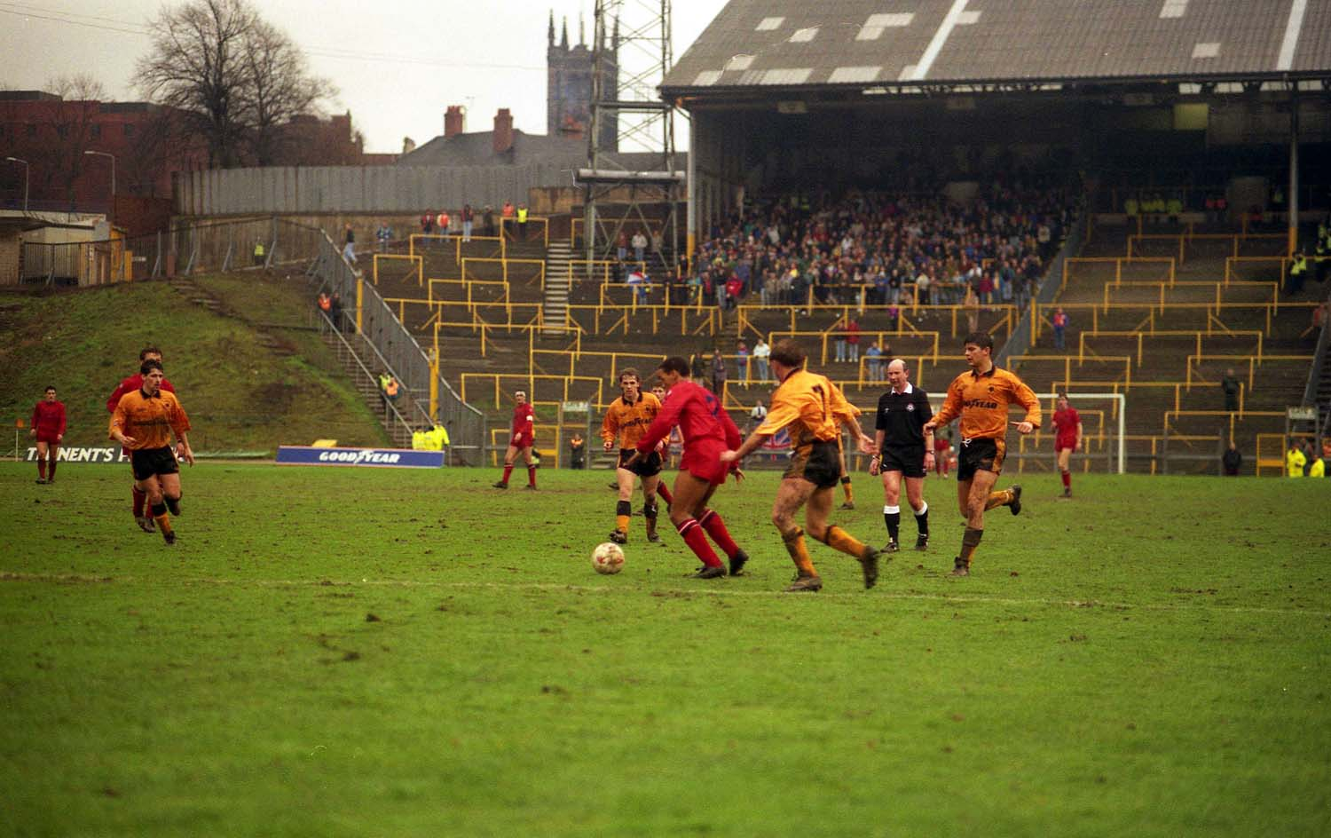 Molineaux Stadium in 1991, near to Wolverhampton, Great Britain.